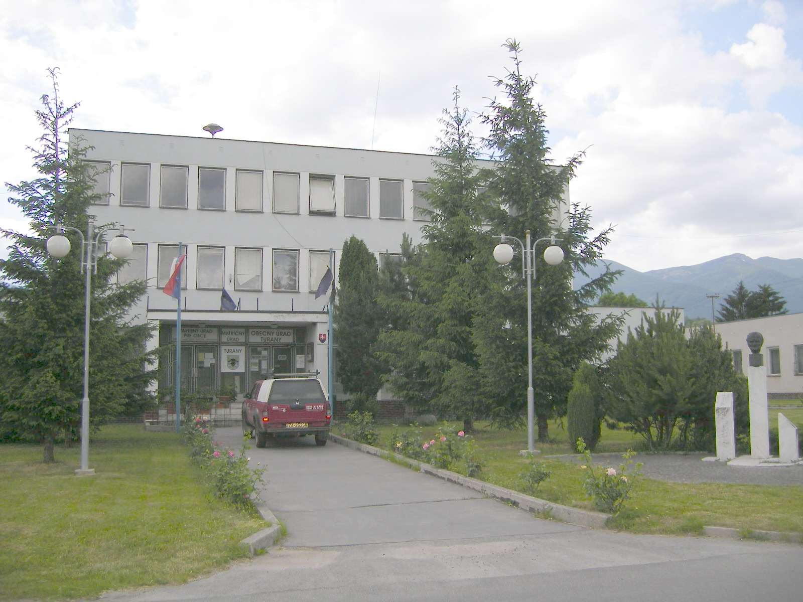 Turany - town hall